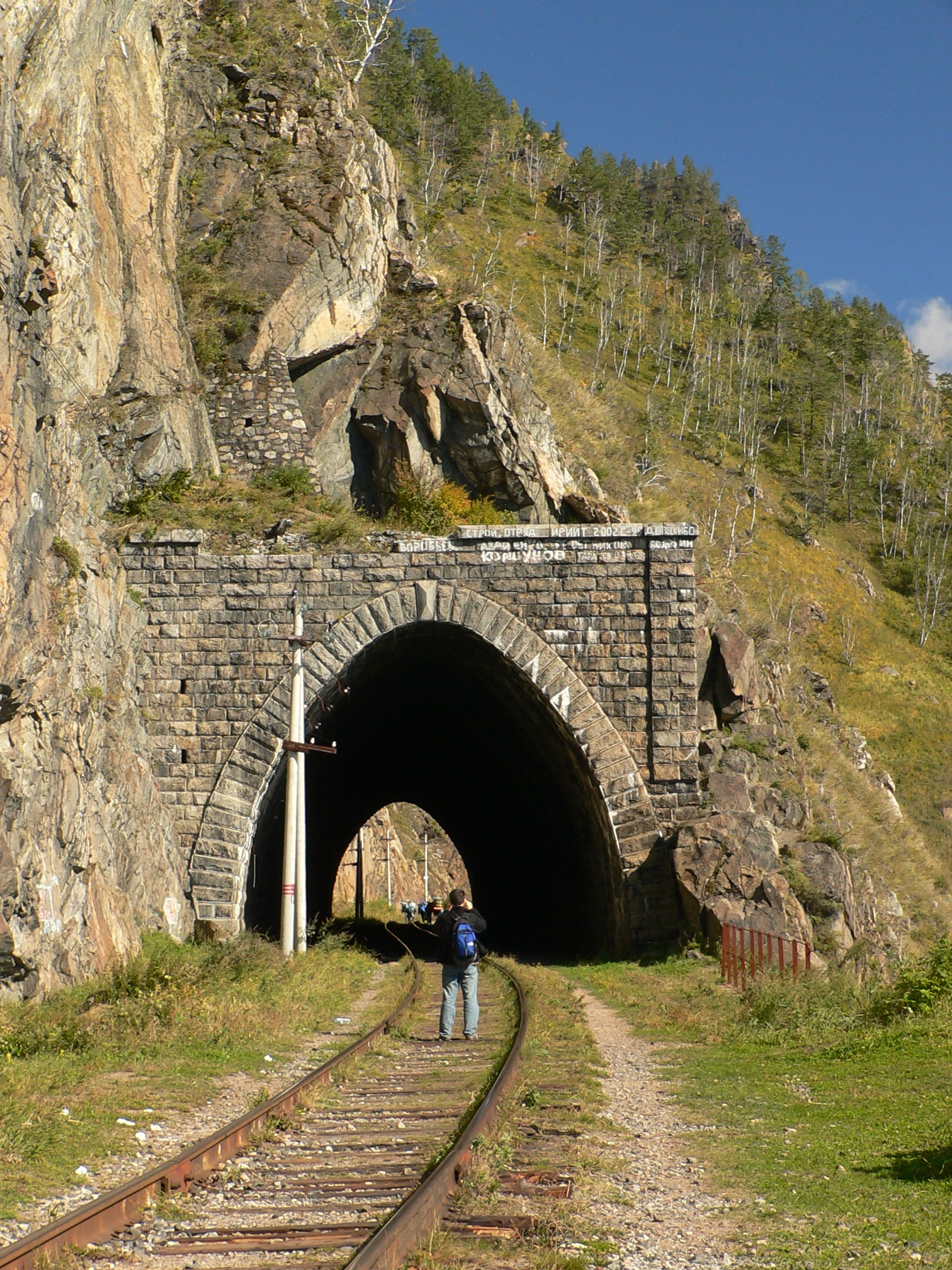 Tunnel on the Circum-Baikal Railway in Russia